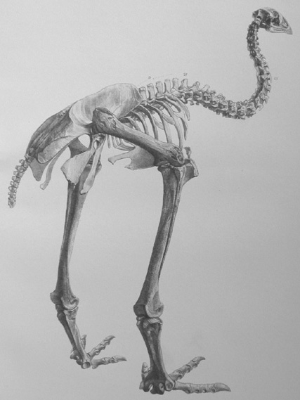 Little Bush Moa, Dinornis parvus, (Anomalopteryx didiformus). Trans. Zool. Soc. Vol. XI Pl. 58. This lithograph is from the Transactions of the Zoological Society of London, Vol XI, 1880. From nat on Stone by J. Erxleben. M.&N. Hanhart lith imp. Plates are blank verso.